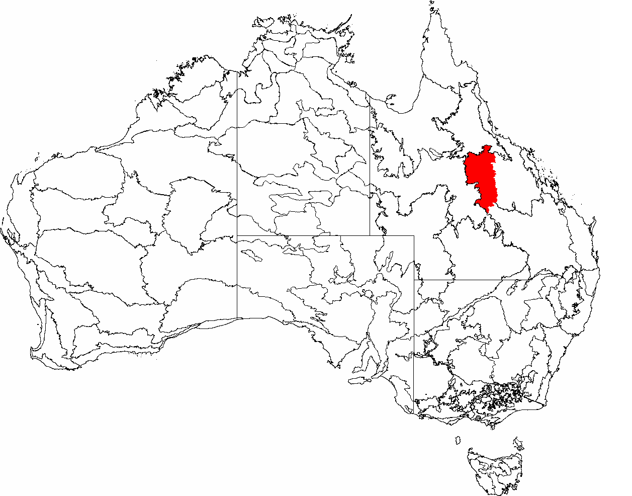 This is a map of the Interim Biogeographic Regionalisation of Australia (IBRA), with state boundaries overlaid. The Desert Uplands region is shown in red.